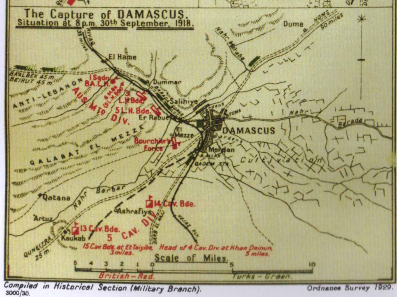 Falls Sketch Map 39 detail shows capture of Damascus Other information Crown copyright access unrestricted